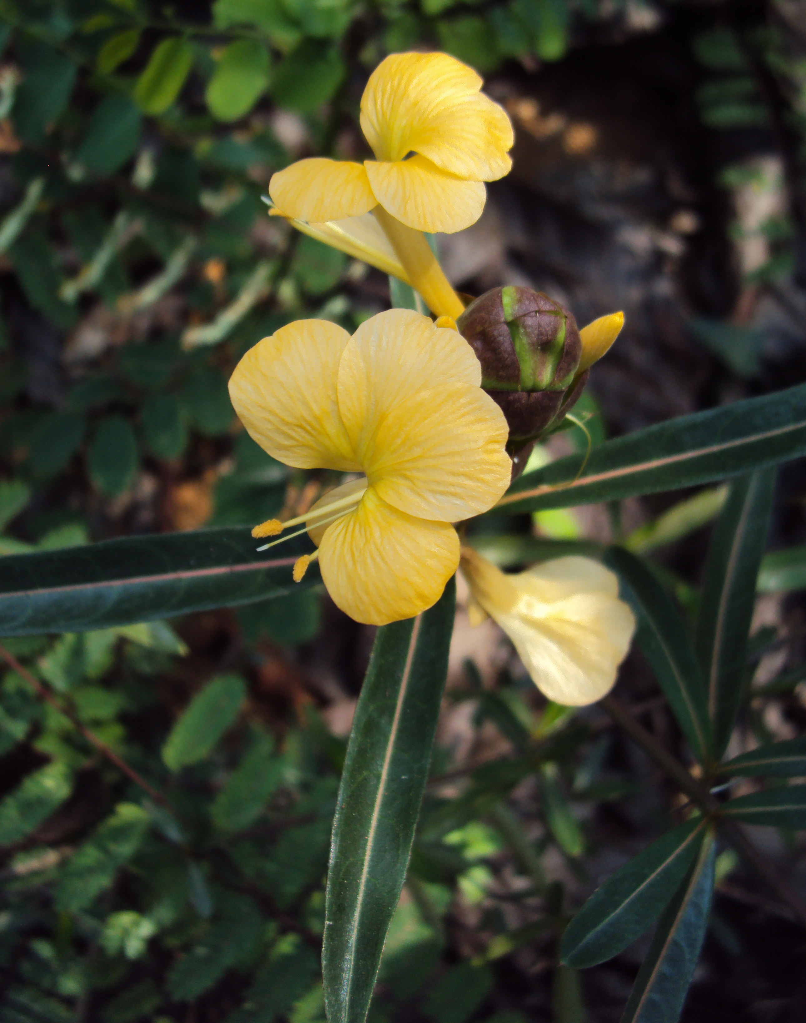 Barleria lupulina